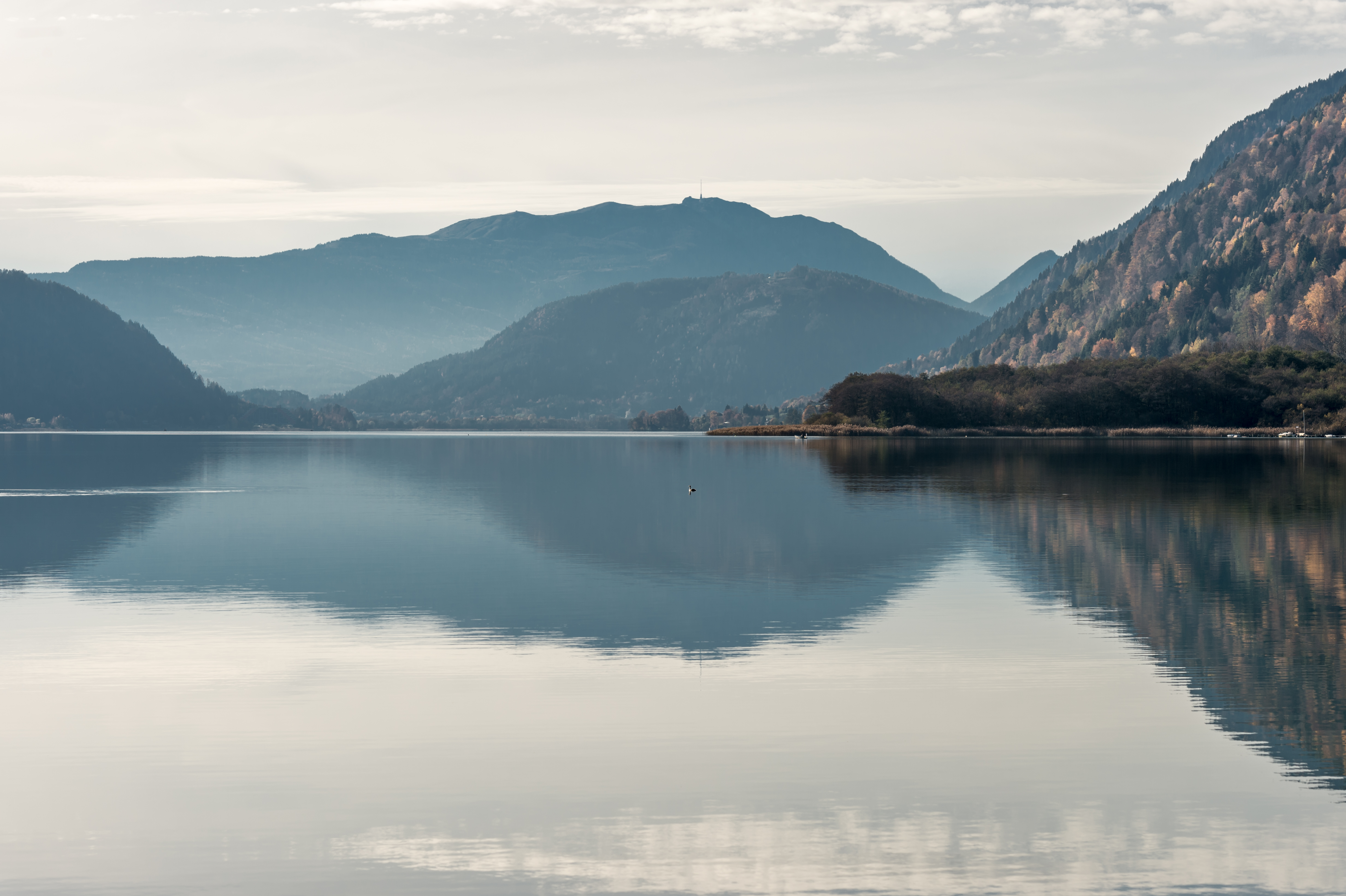 Lake Ossiach in Sankt Urban and the Dobratsch in the background, municipality Steindorf am Ossiacher See, district Feldkirchen, Carinthia, Austria, EU